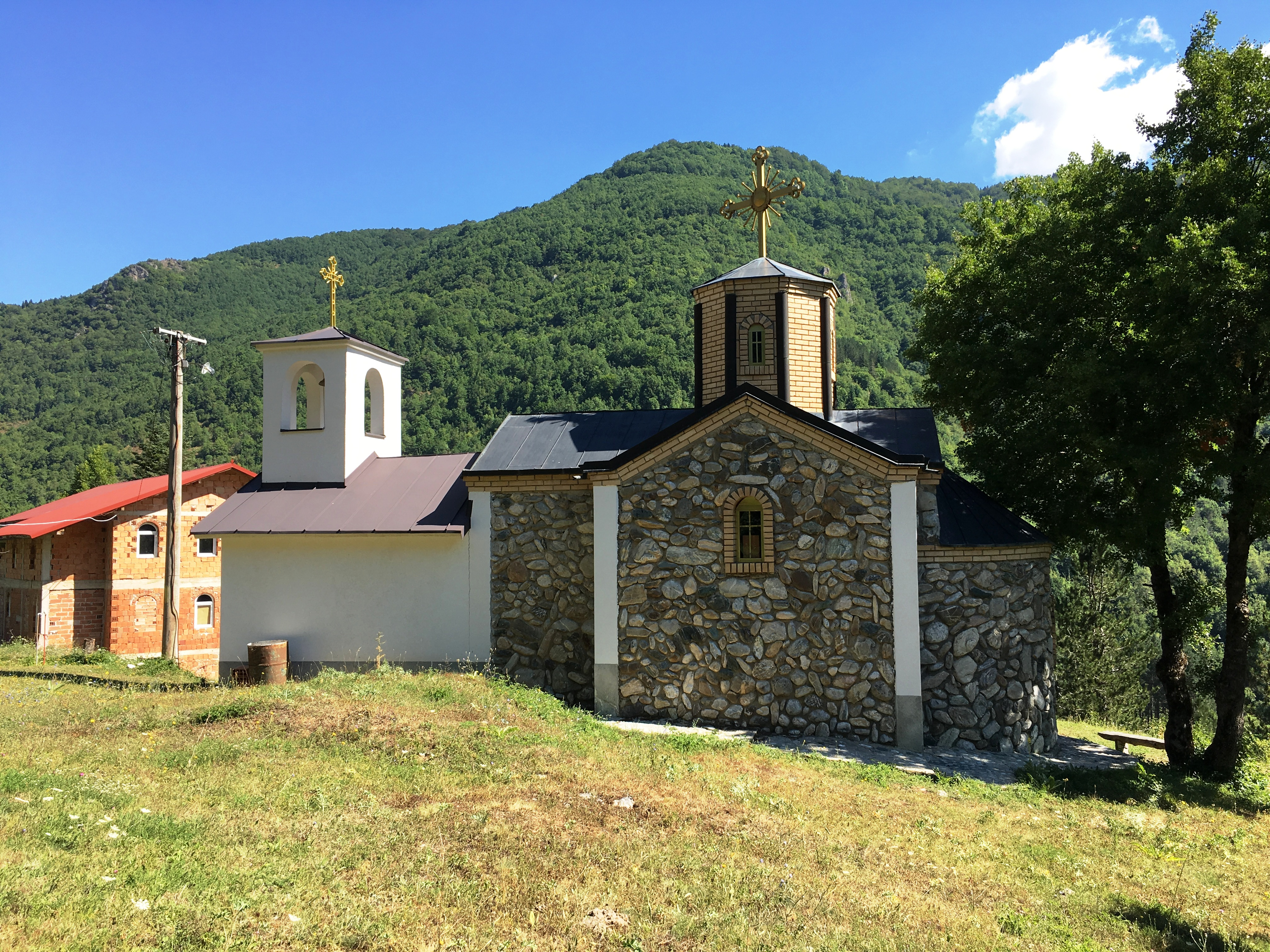 St. Nicholas Church of the Trnica Monastery